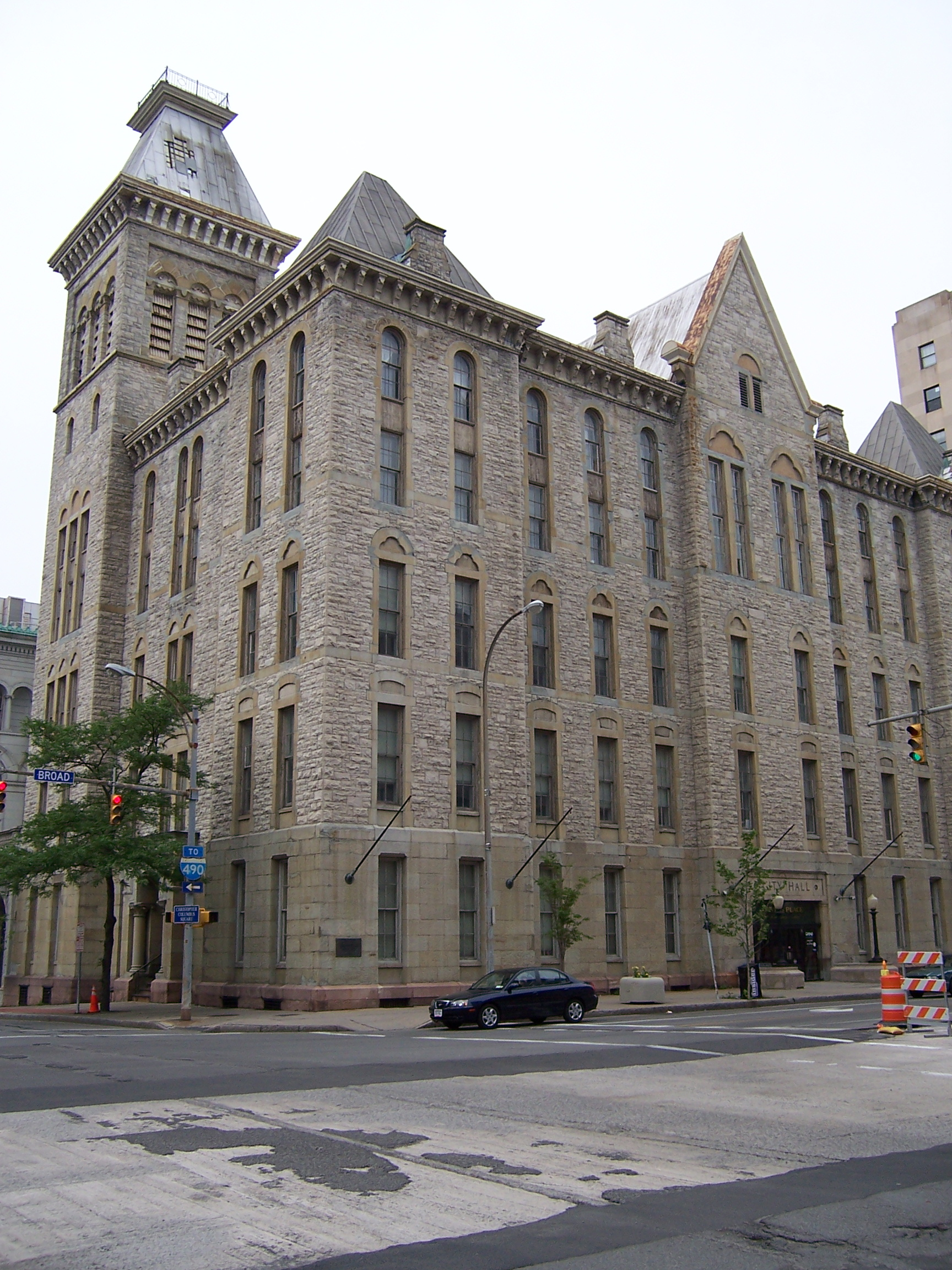 The former city hall of Rochester, New York. It served as Rochester's City Hall from 1875 until 1978. It is listed on the National Register of Historic Places as part of the City Hall Historic District. The street running from foreground left to middle right is Broad Street, carrying New York State Route 31. At the time the city hall was built, what is now Broad Street was the Erie Canal.